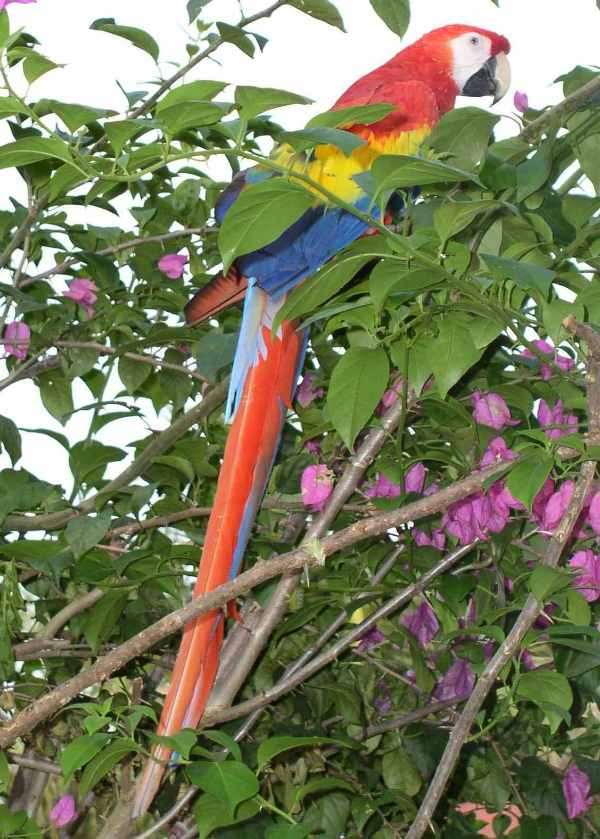 Scarlet Macaw (Ara macao) on a Bougainvillea shrub, wild in Belize.